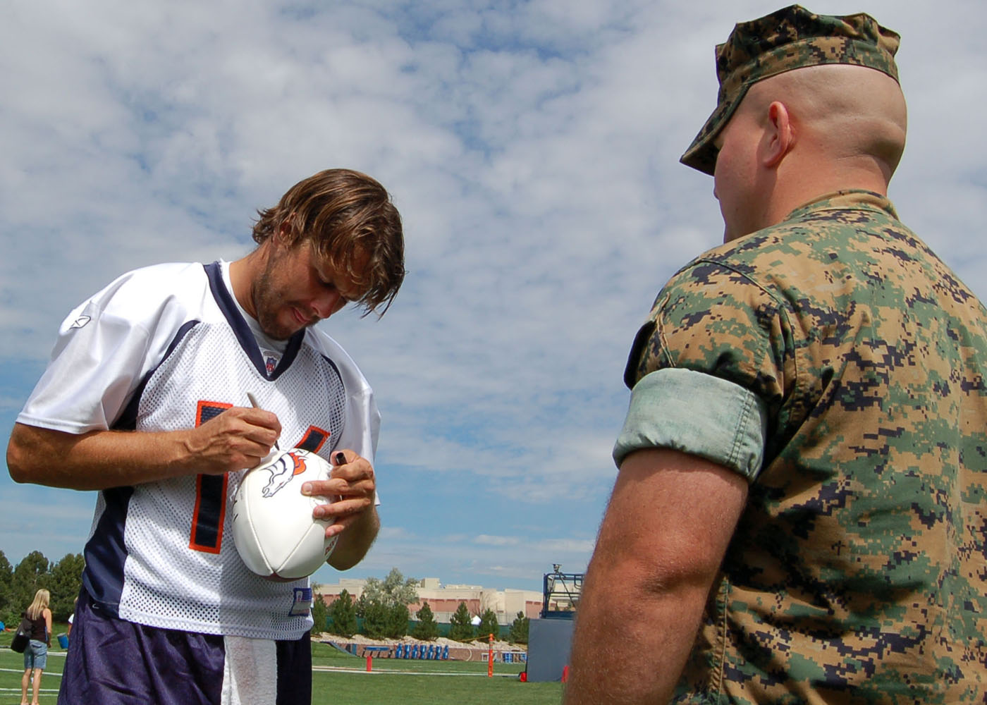 Former Denver Broncos quarterback Jake Plummer signs a football for Staff Sgt. Richard Molnar Aug. 9 at a Denver Broncos training camp practice. Molnar and three other Marines were invited to the practice by the Greatest Generations Foundation to meet with World War II Veterans. Molnar is assigned to the Marine Cryptologic Support Battalion at Buckley Air Force Base in Colorado. The Greatest Generations Foundation is a non-profit educational organization that raises money to fully fund trips for veterans to revisit the sites of their former battlefields.